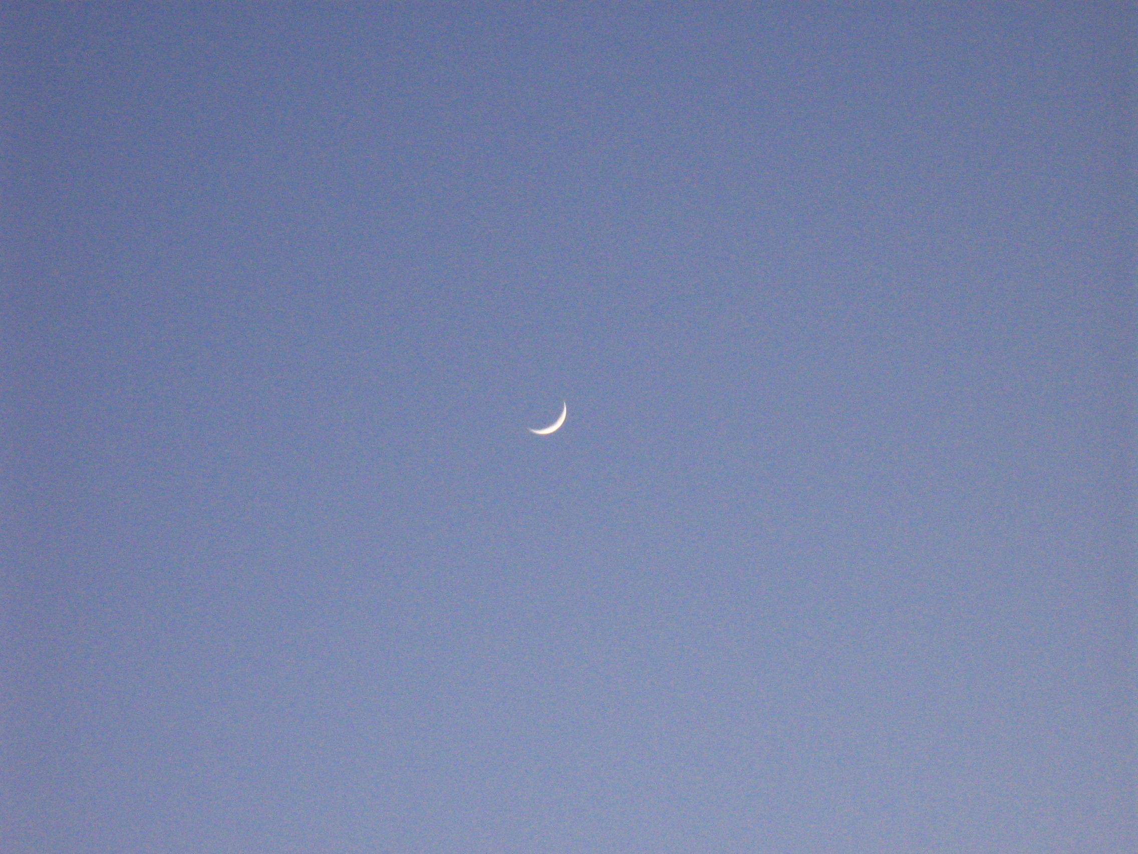 Luna at twilight sky. Young, born a few days after.